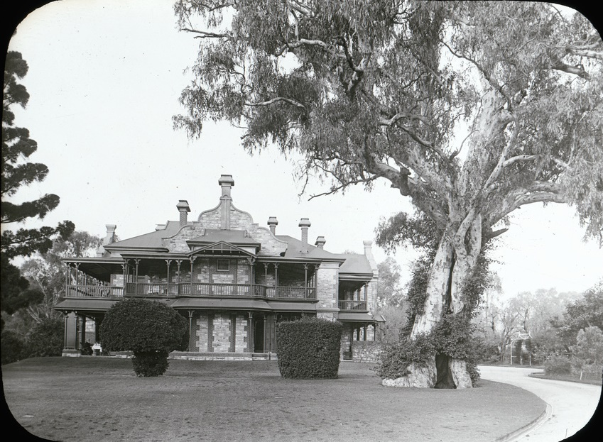 Victorian mansion built in 1900 for Thomas Roger Scarfe, designed by architect Alfred Wells, replacing a home on the site owned by George Brunskill. Norfolk pine on left was planted by George Brunskill. Now used by final year students at Marryatville High School.